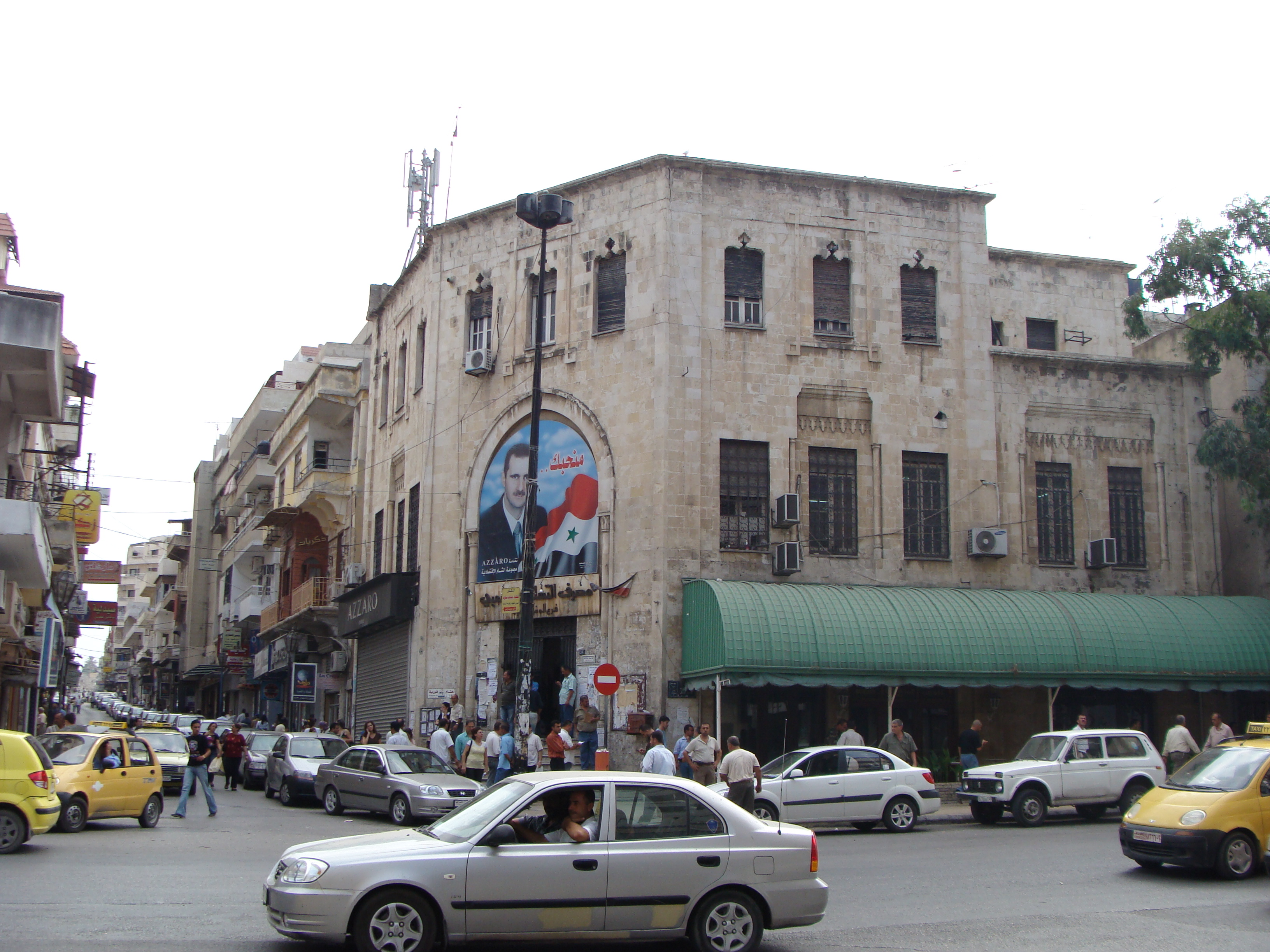 Street in Lattakia, Syria (March 8, 2008).